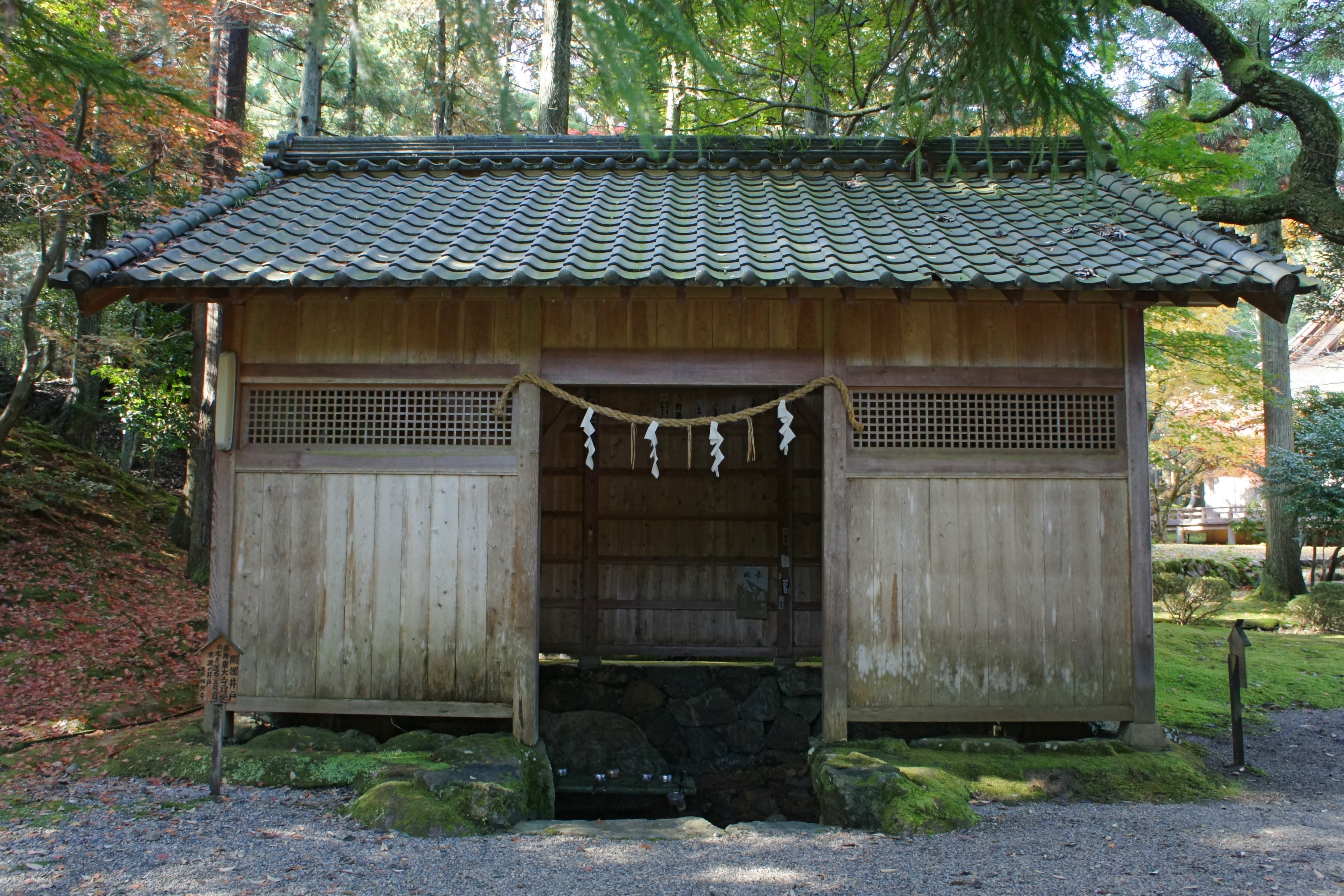 Jingu-ji in Obama, Fukui prefecture, Japan.